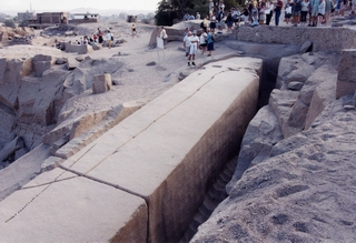 Aswan Dam, Egypt